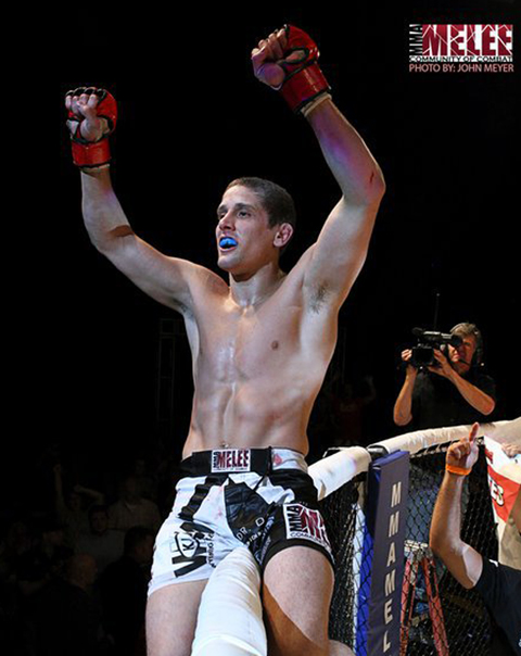 Jimy Hettes at Mohegan Sun Arena after winning MMA Melee Featherweight Championship